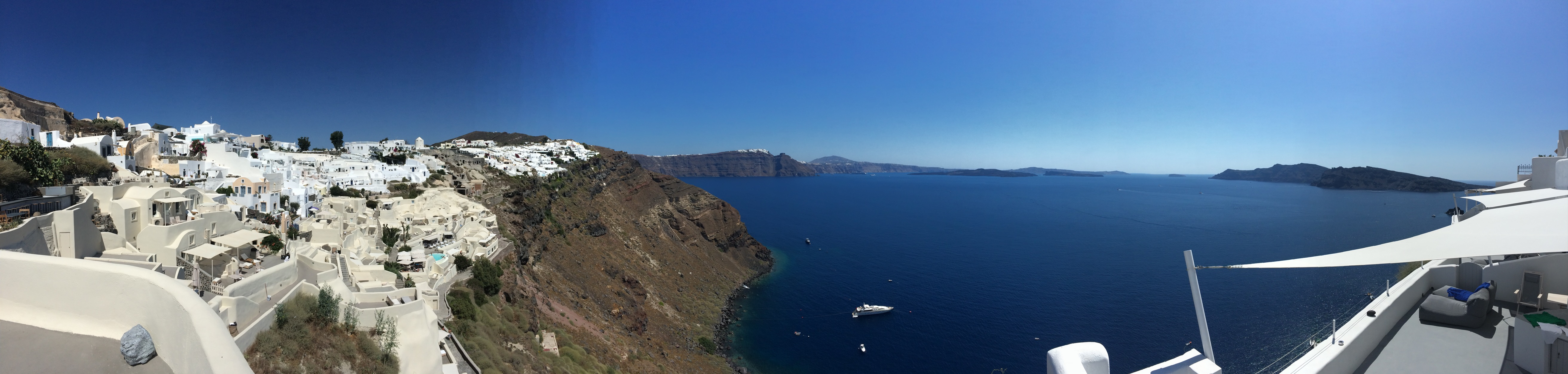 Panoramic view from Oia's cliffs, overlooking the island of Santorini, Thira, Volcano (Palia & Nea Kameni) and beyond.